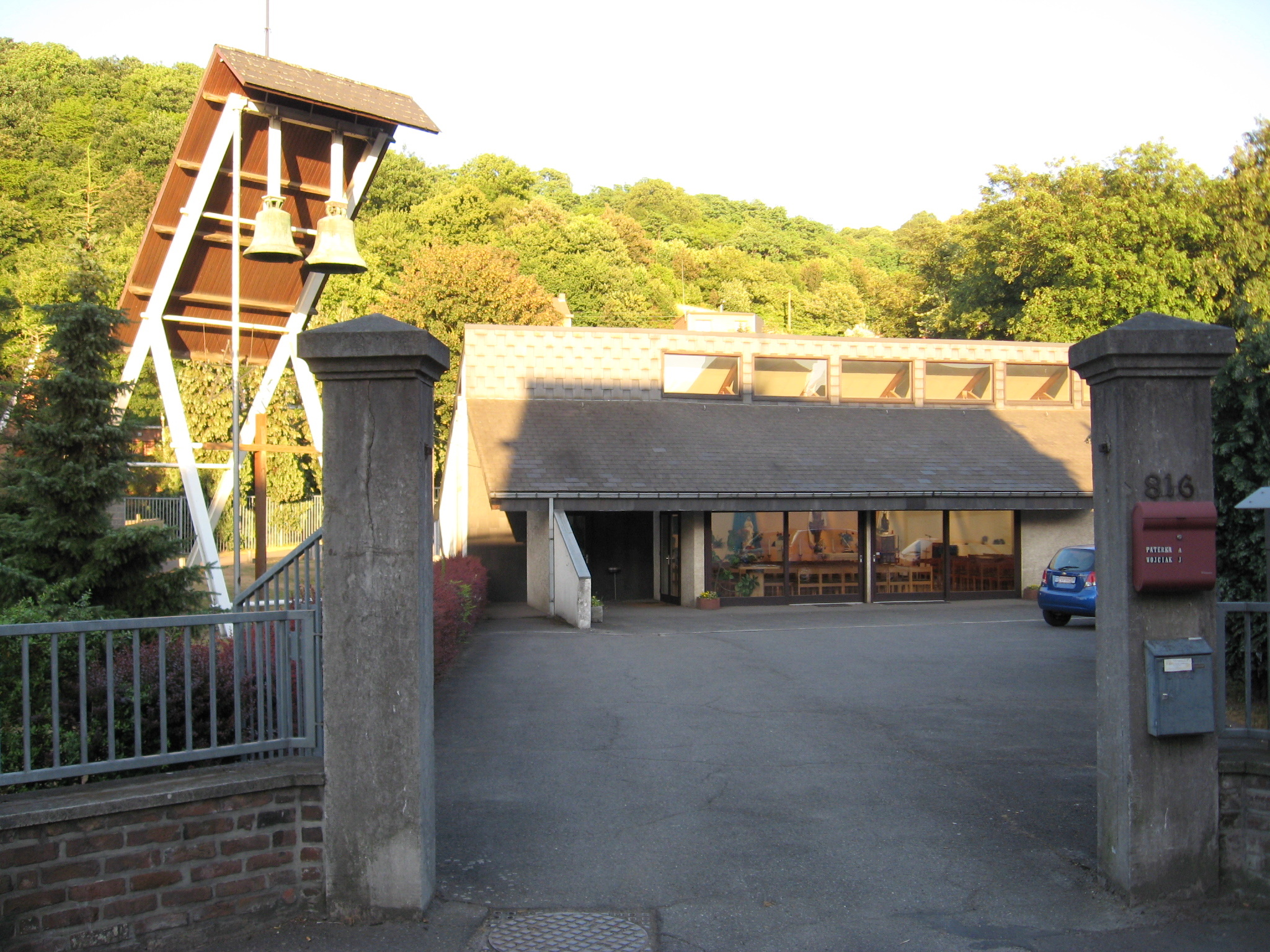 Church of Saint Stephen in Wandre, Liège, Liège, Belgium